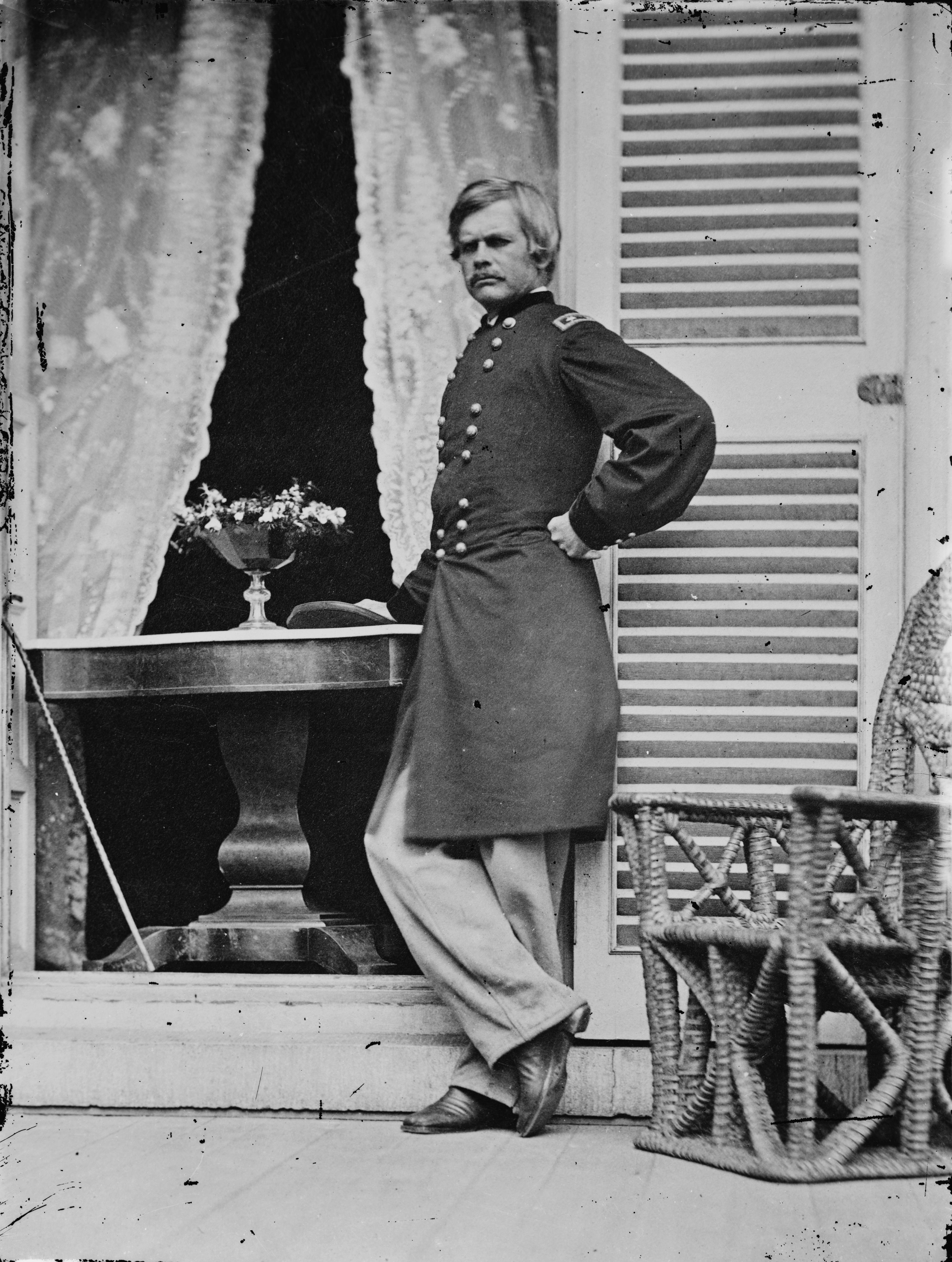 Edward Ord with Appomattox surrender table. Ord had given this table to his wife. Library of Congress description: "Gen. Ord, U.S.A."